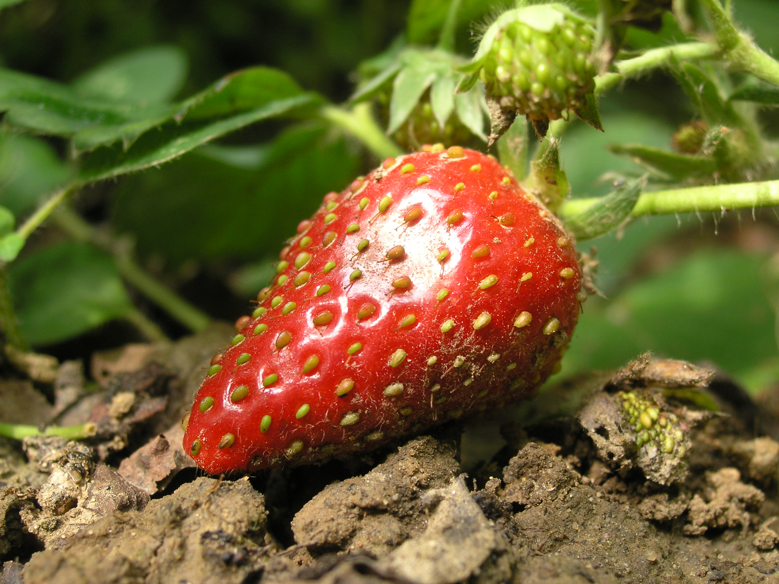 A ripe strawberry